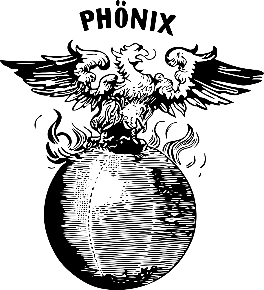 Historical Badge of Phönix Karlsruhe